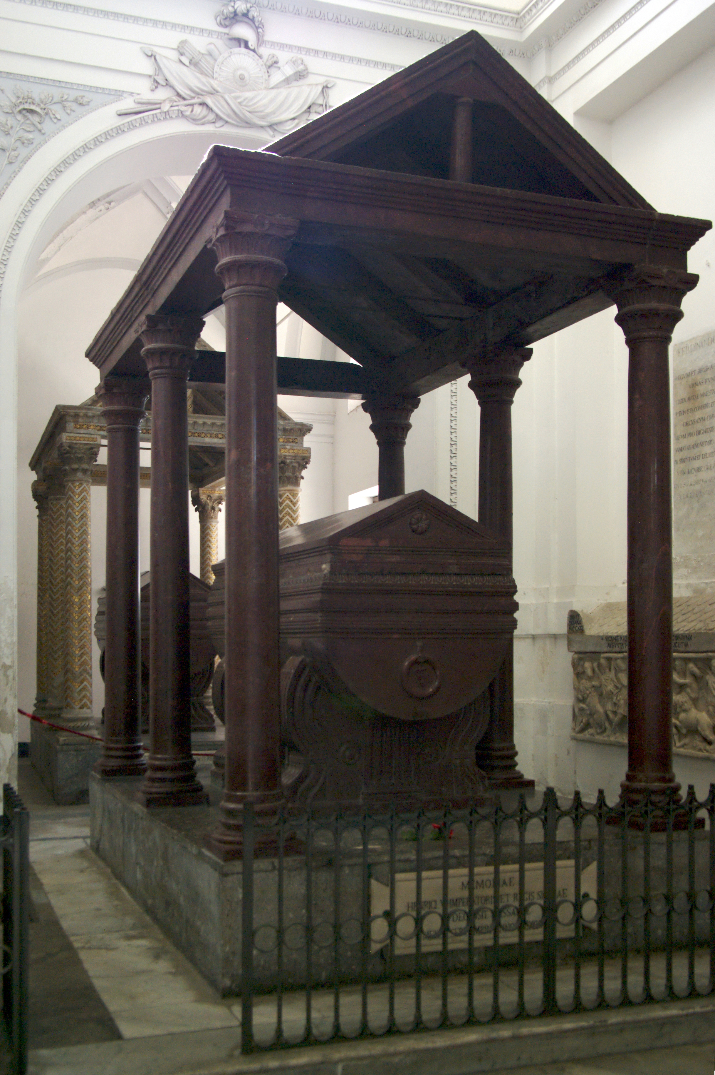 Palermo, Cathedral, Tomb of Henry VI, Holy Roman Emperor.